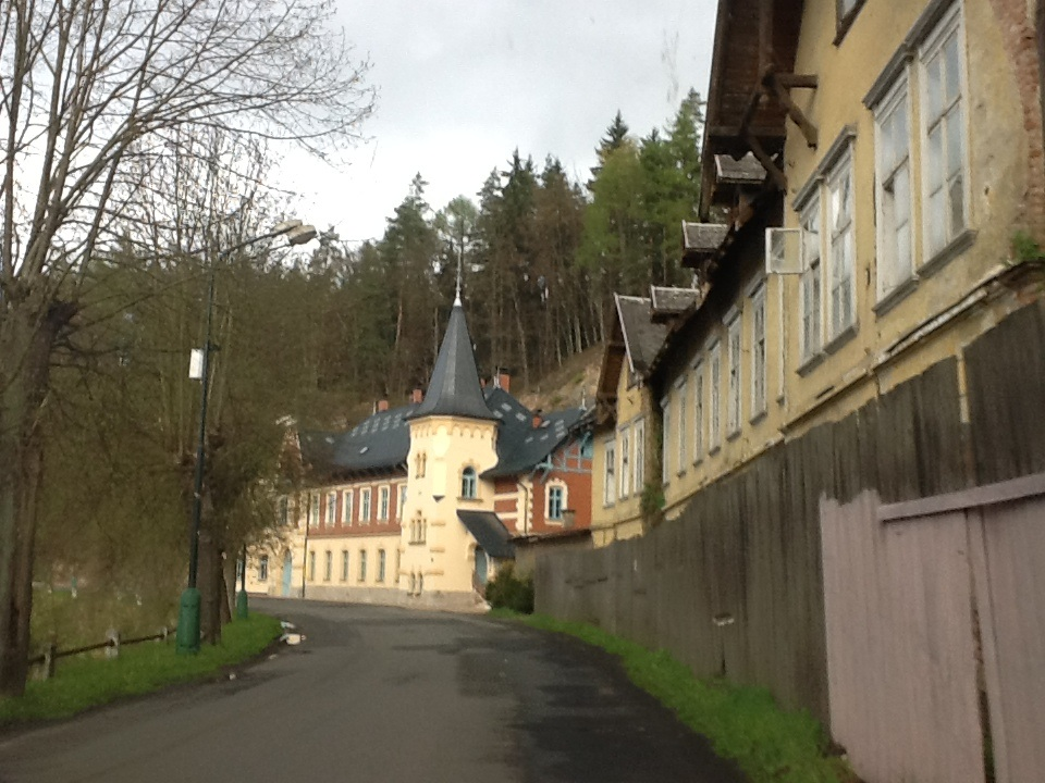 Stalburg Lázně Kyselka 2014